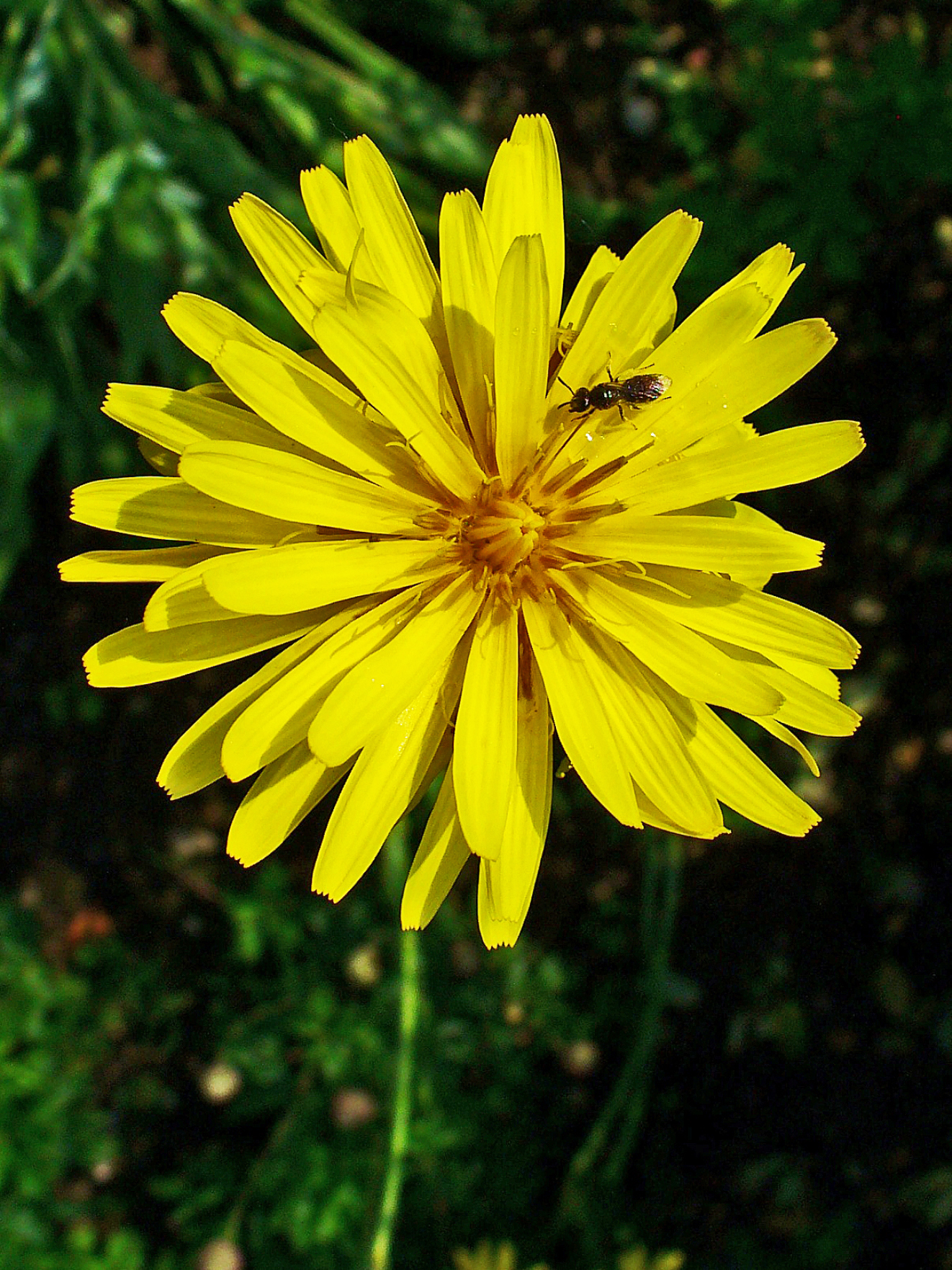 Scorzonera hispanica, Asteraceae, Black Salsify, Spanish Salsify, Black Oyster Plant, Serpent Root, Viper's Herb, Viper's Grass, flower. Botanical Garden KIT, Karlsruhe, Germany.